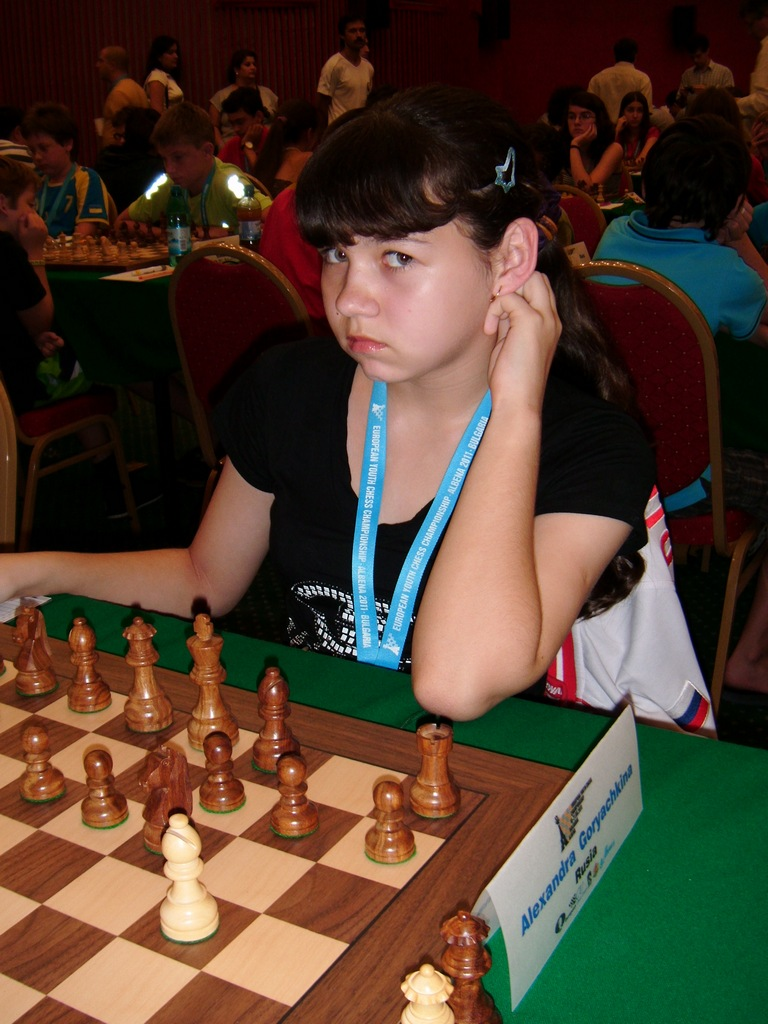 Alexandra Goryachkina playing in the European Youth Chess Championship in Albena (Bulgaria)